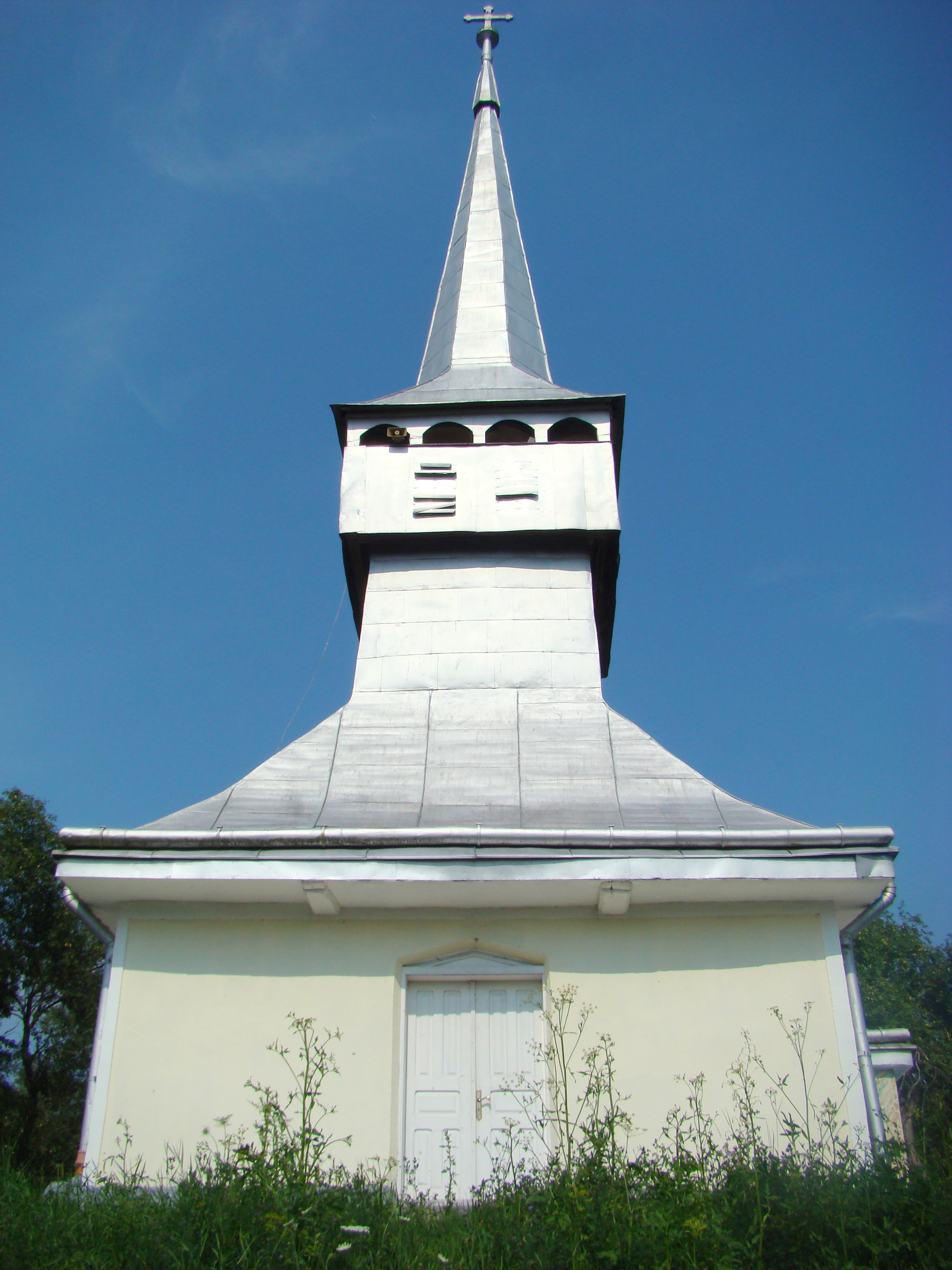 Wooden church in Bercea, Sălaj county, Romania